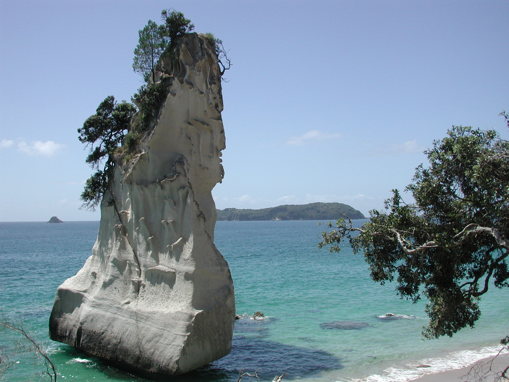 Te Hoho Rock viewed from cliff